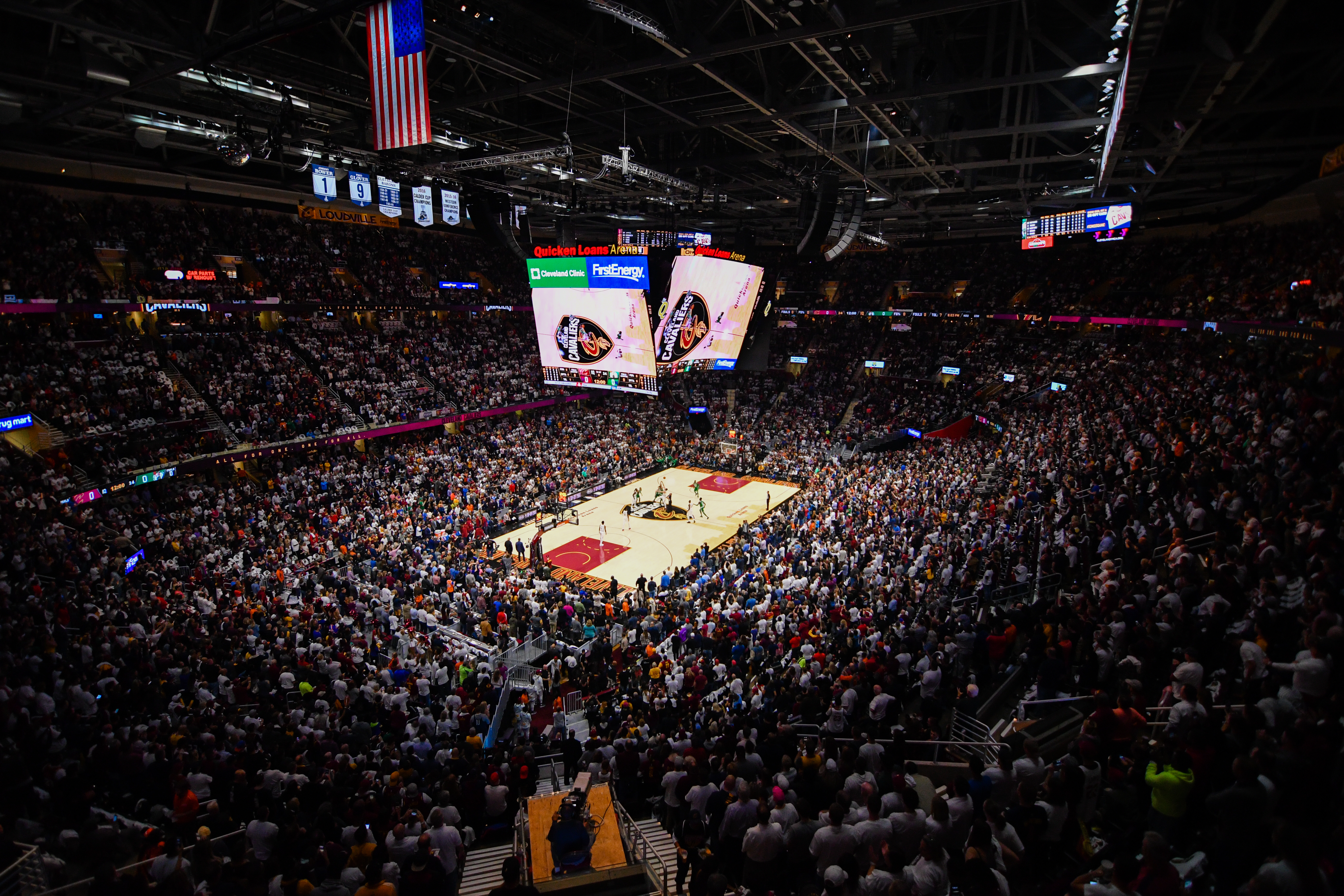 Cleveland Cavaliers vs. Boston Celtics